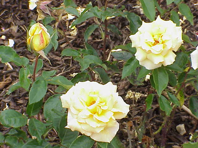 Species: Rosa sp. Family: Rosaceae Cultivar: Olga Tschechowa, Olga Chekhova Image No. 212